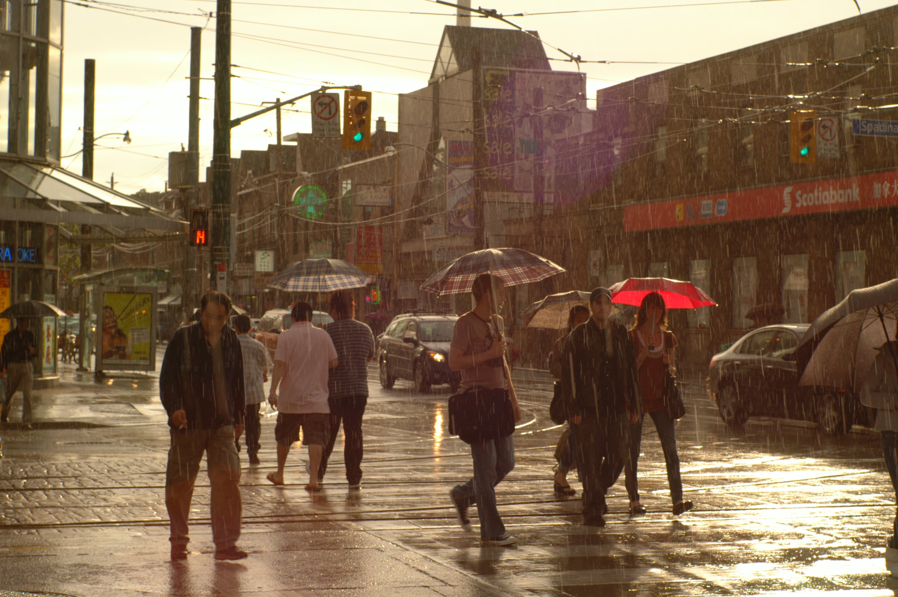 Downpour in Chinatown. Toronto, Canada.